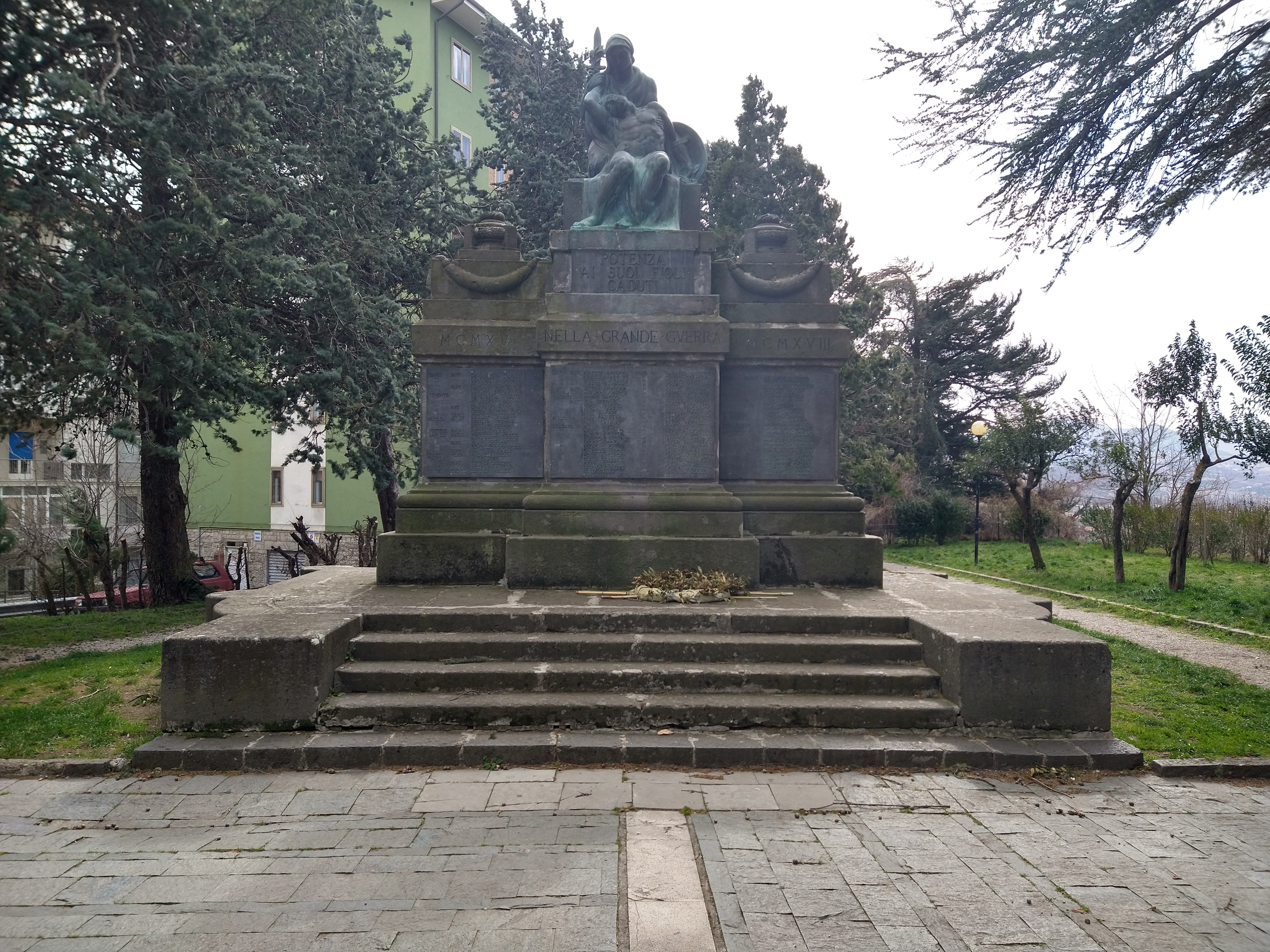 World War I war memorial in Montereale Park, Potenza, Italia